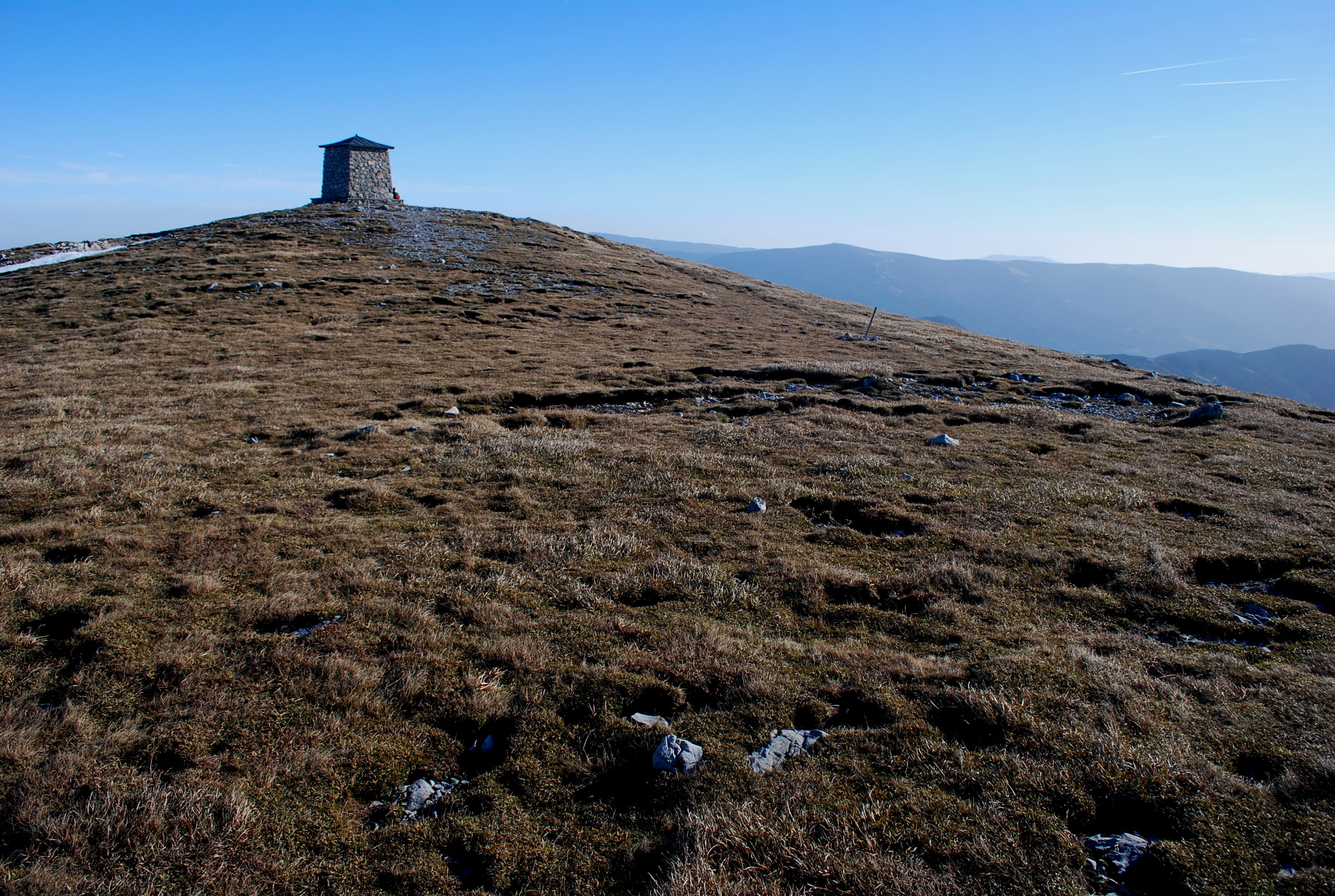 Top of Rax: Heukuppe, 2007m